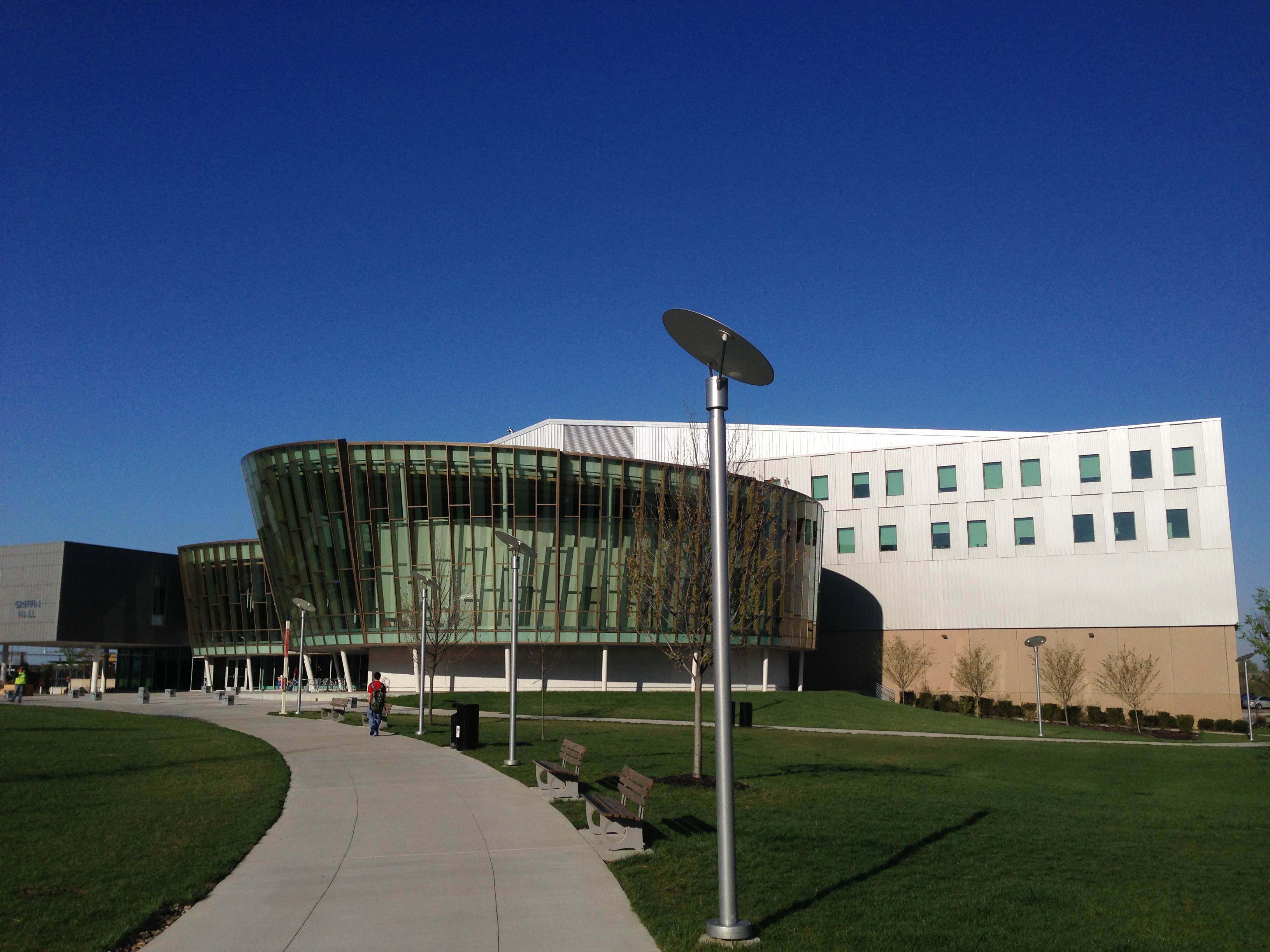 NKU's Griffin Hall, home of the School of Informatics